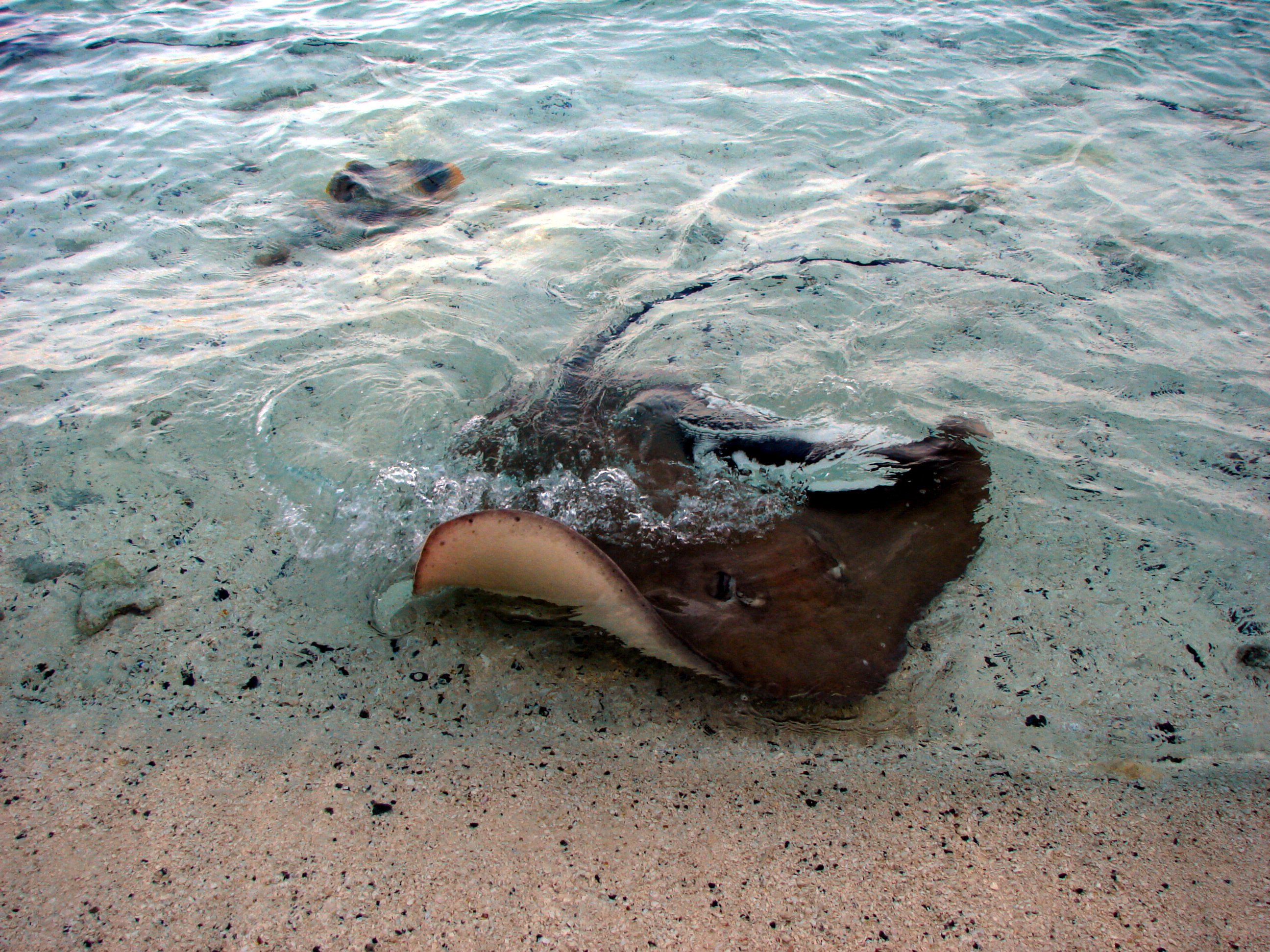 Jenkins' whipray (Himantura jenkinsii) in the Maldives.